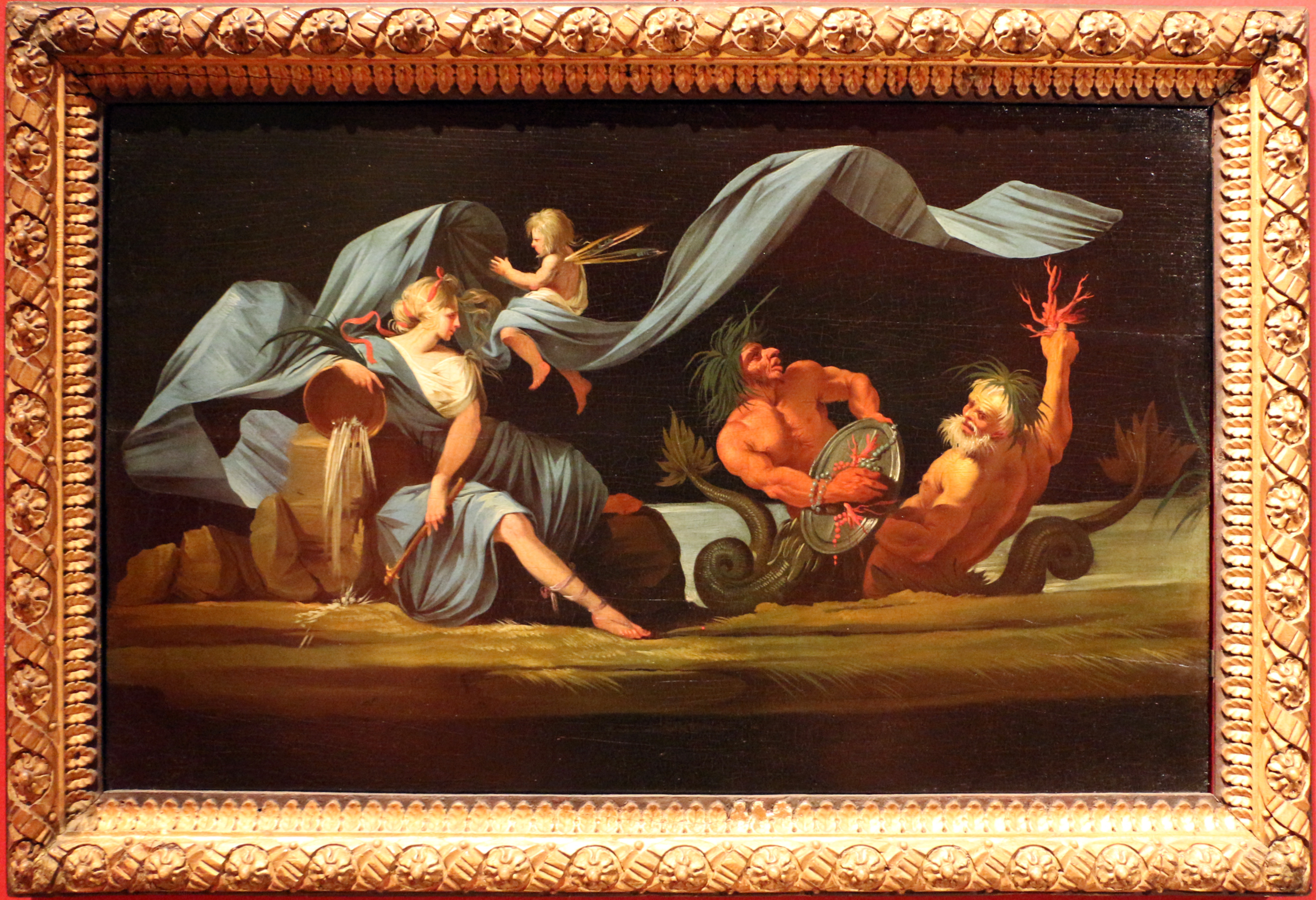 Fondazione Cavallini Sgarbi, on exhibition in Osimo (2016)